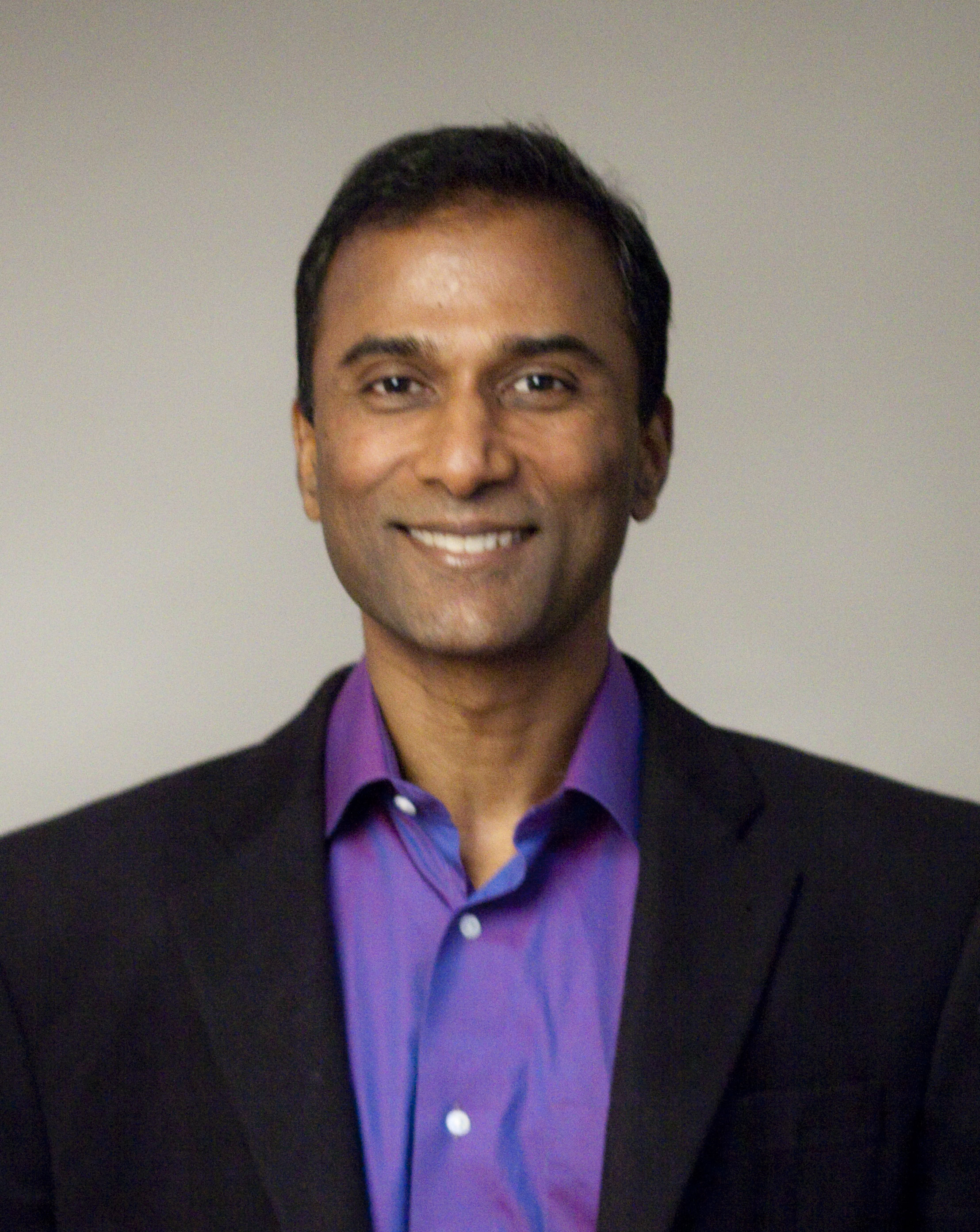 Technologist & Entrepreneur VA Shiva Ayyadurai, taken in 2010 by Darlene DeVita for Echomail, Inc.